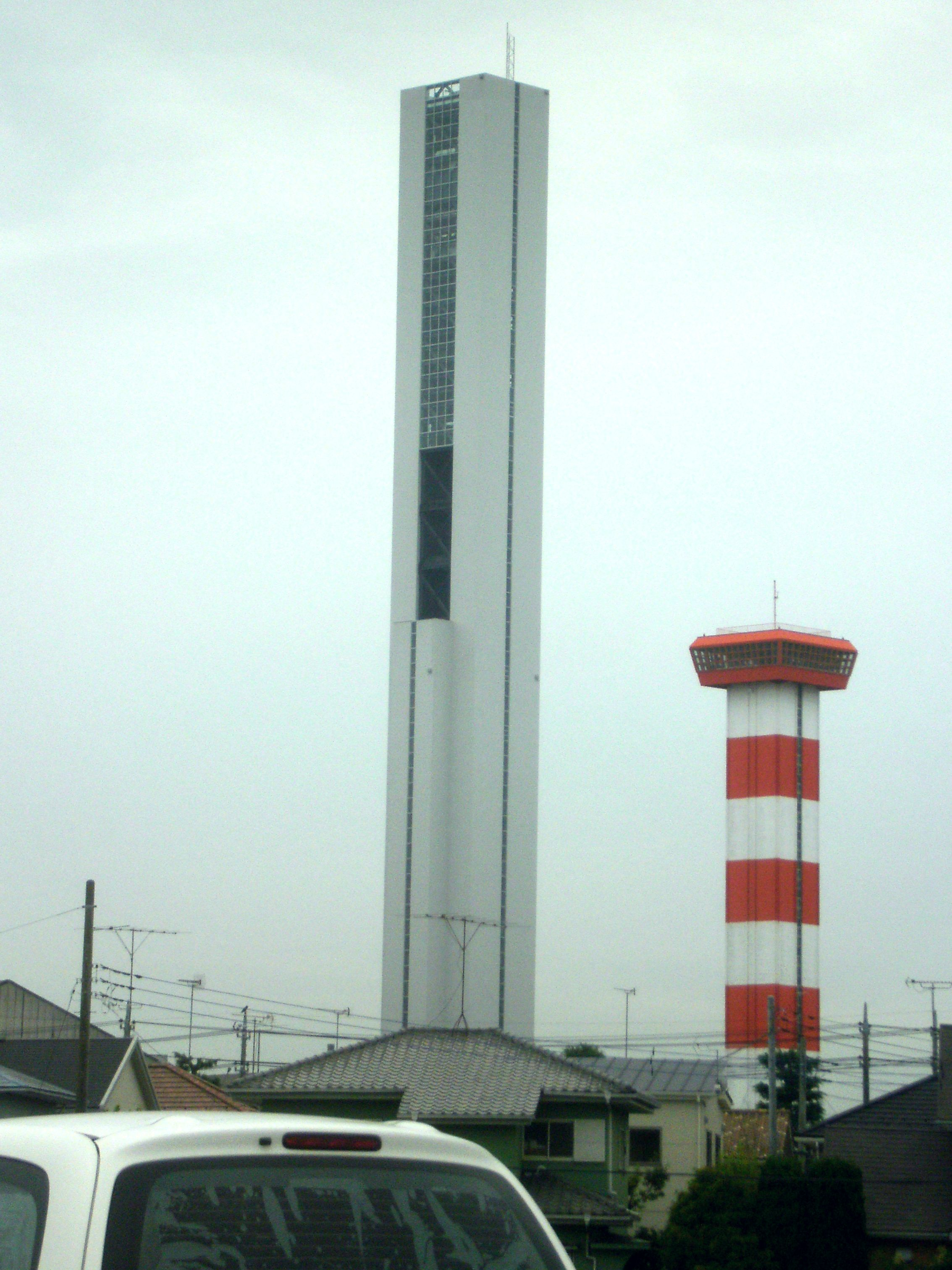 "G1TOWER", the elevator laboratory tower of Hitachi, ltd. in Ibaraki pref. Japan